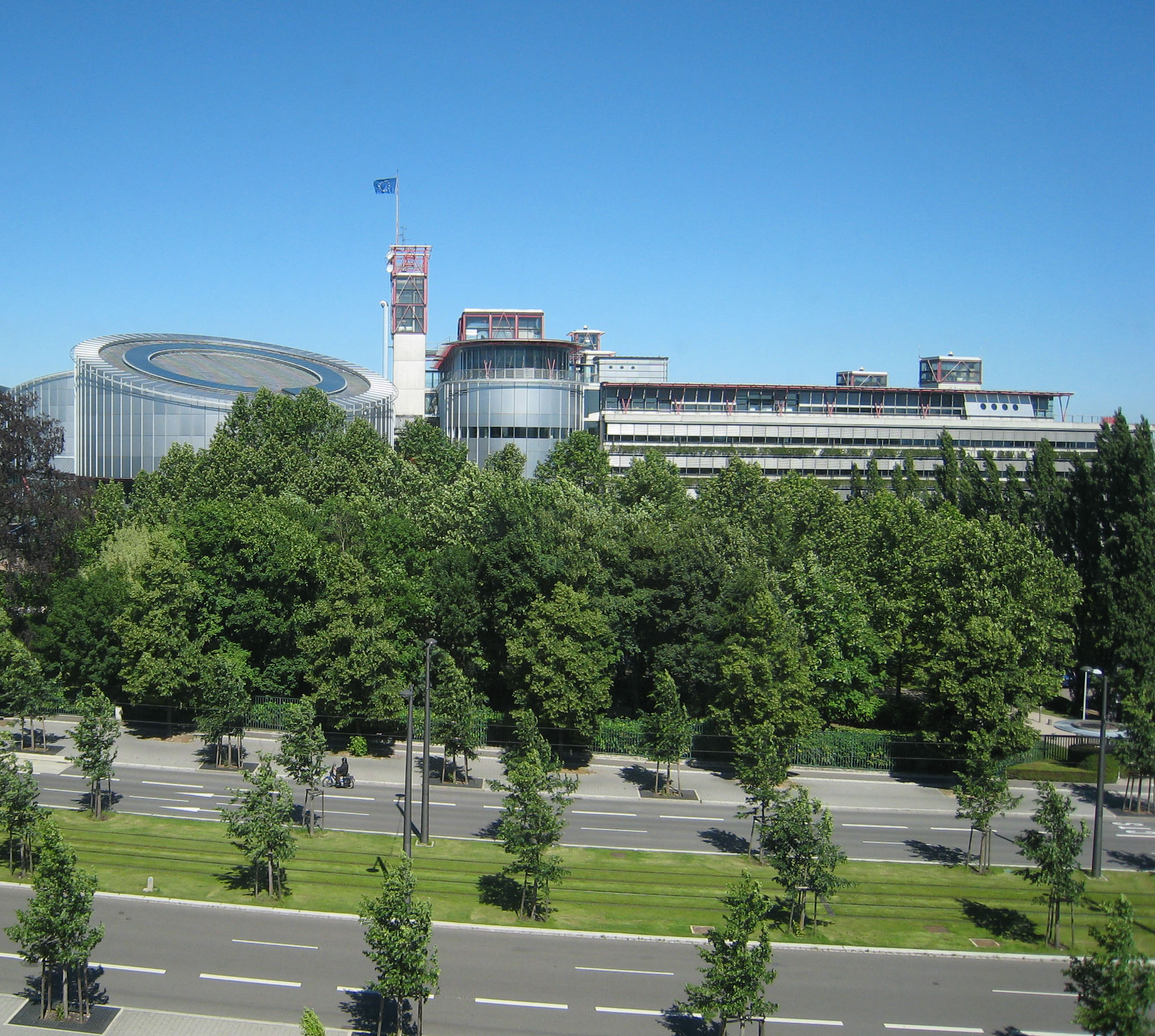 European Court of Human Rights - Cour Européenne des Droits de l'Homme